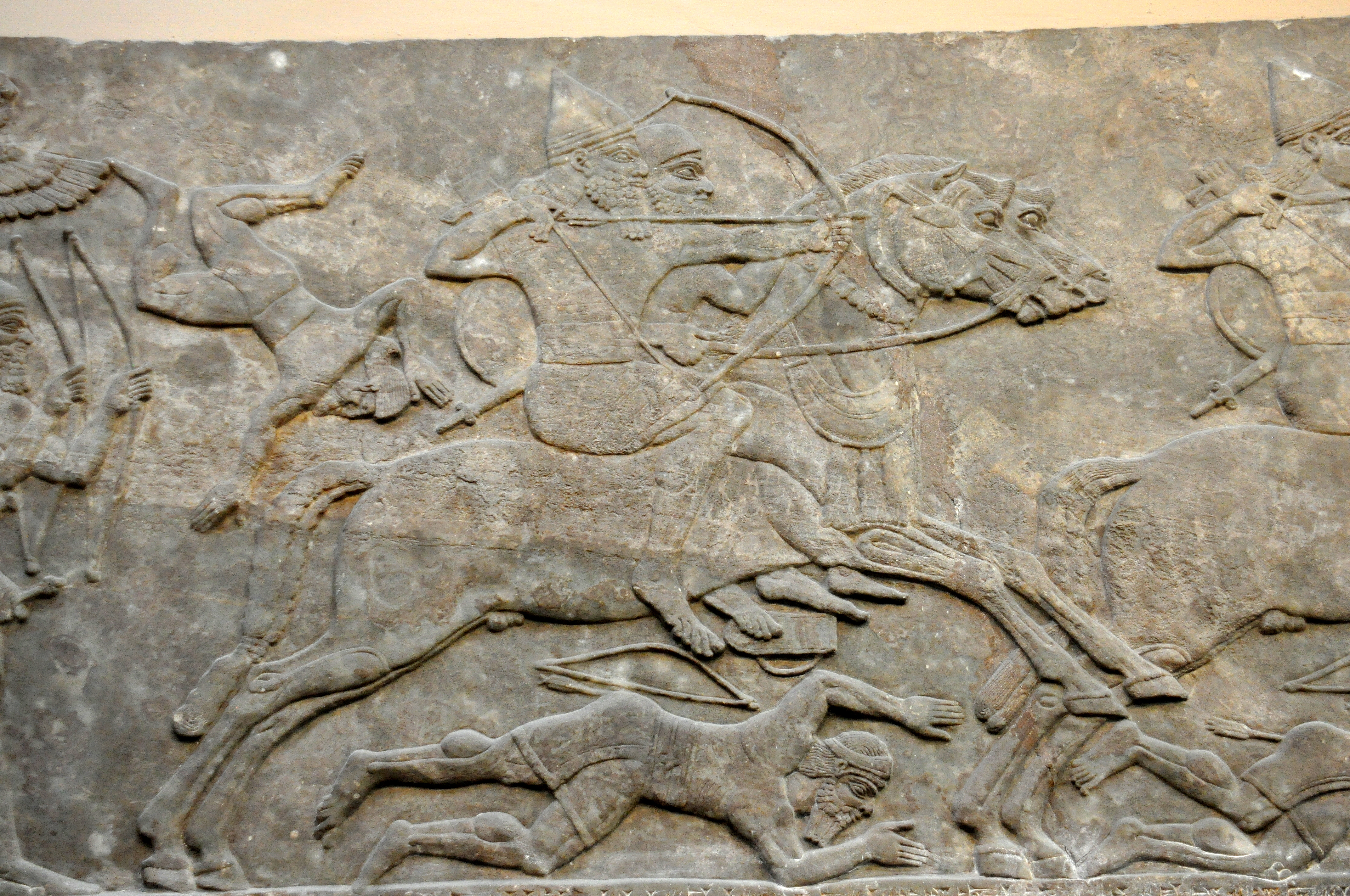 Assyrian cavalry charge the enemy dating back to the reign of Ashurnasirpal II, 865-860 BCE. In this period, cavalry was relatively new. Detail of a gypsum wall relief from the North-West Palace (Room B, panel 9) at Nimrud (Kalhu), modern-day Iraq, currently housed in the British Museum, London.